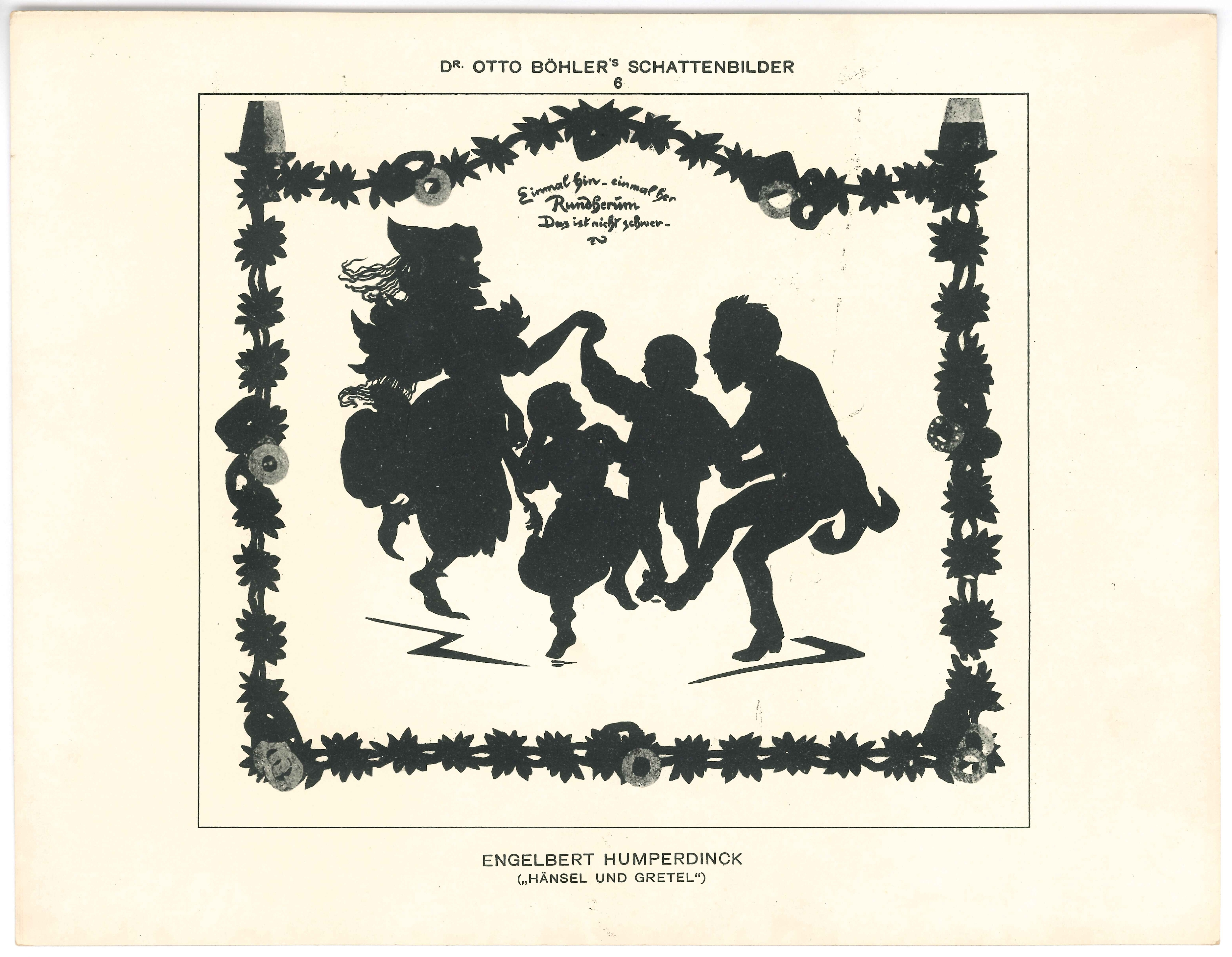 Engelbert Humperdinck (Hänsel und Gretel), silhouette 26 x 20 cm; photo of Böhler´s silhouette printed on thick card